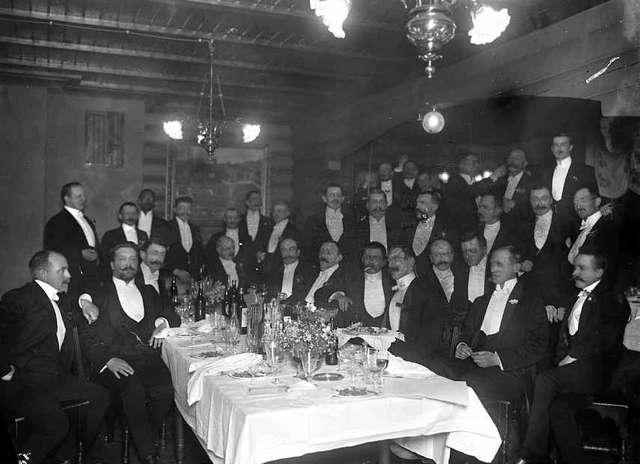 Members of Skiklubben Ull in Oslo, Norway celebrating its 25th anniversary